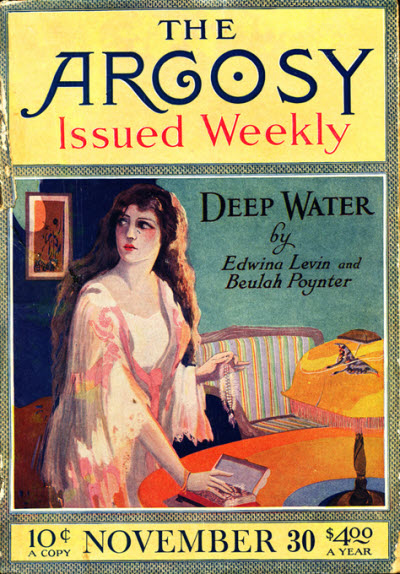 The Argosy, November 30, 1918